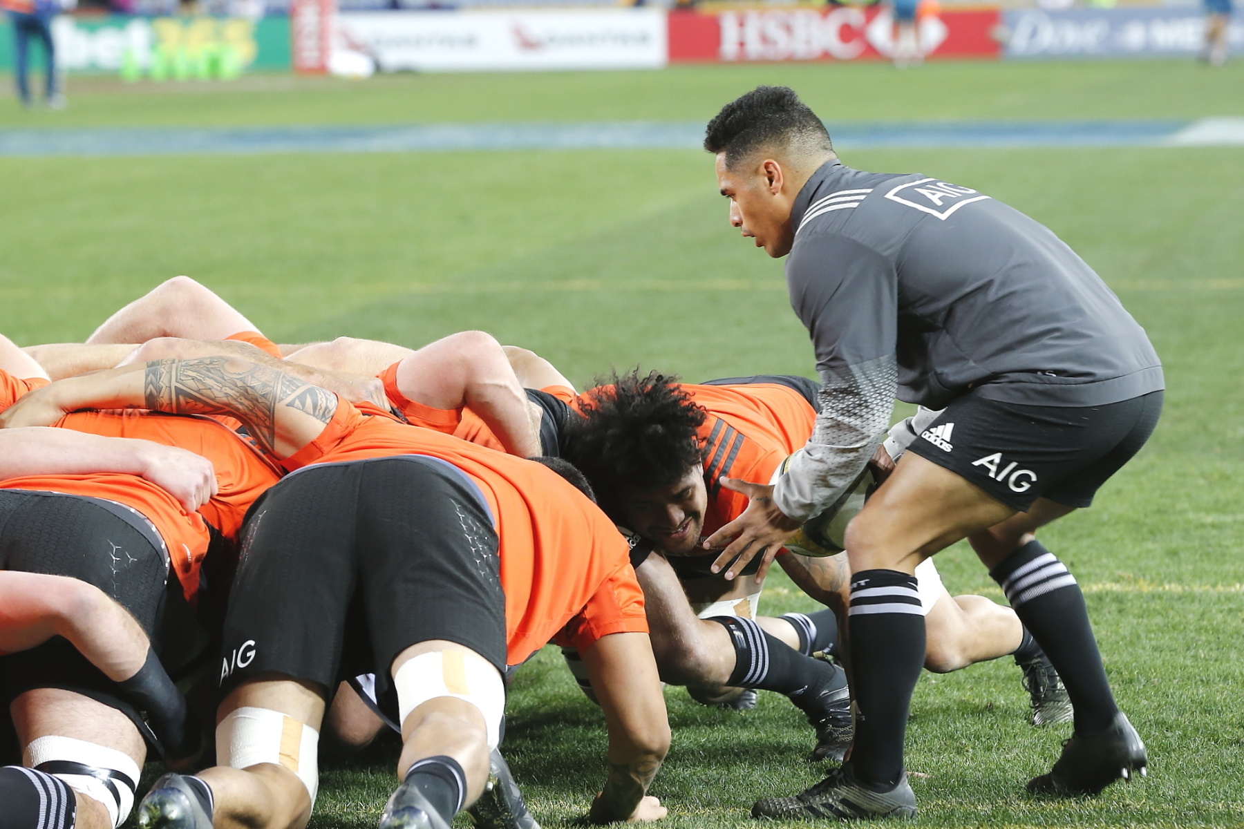 2017.08.19.19.43.53-NZL warm up 2017 Rugby Championship, Bledisloe 1, Australia vs New Zealand, 19th August, ANZ Stadium, Sydney